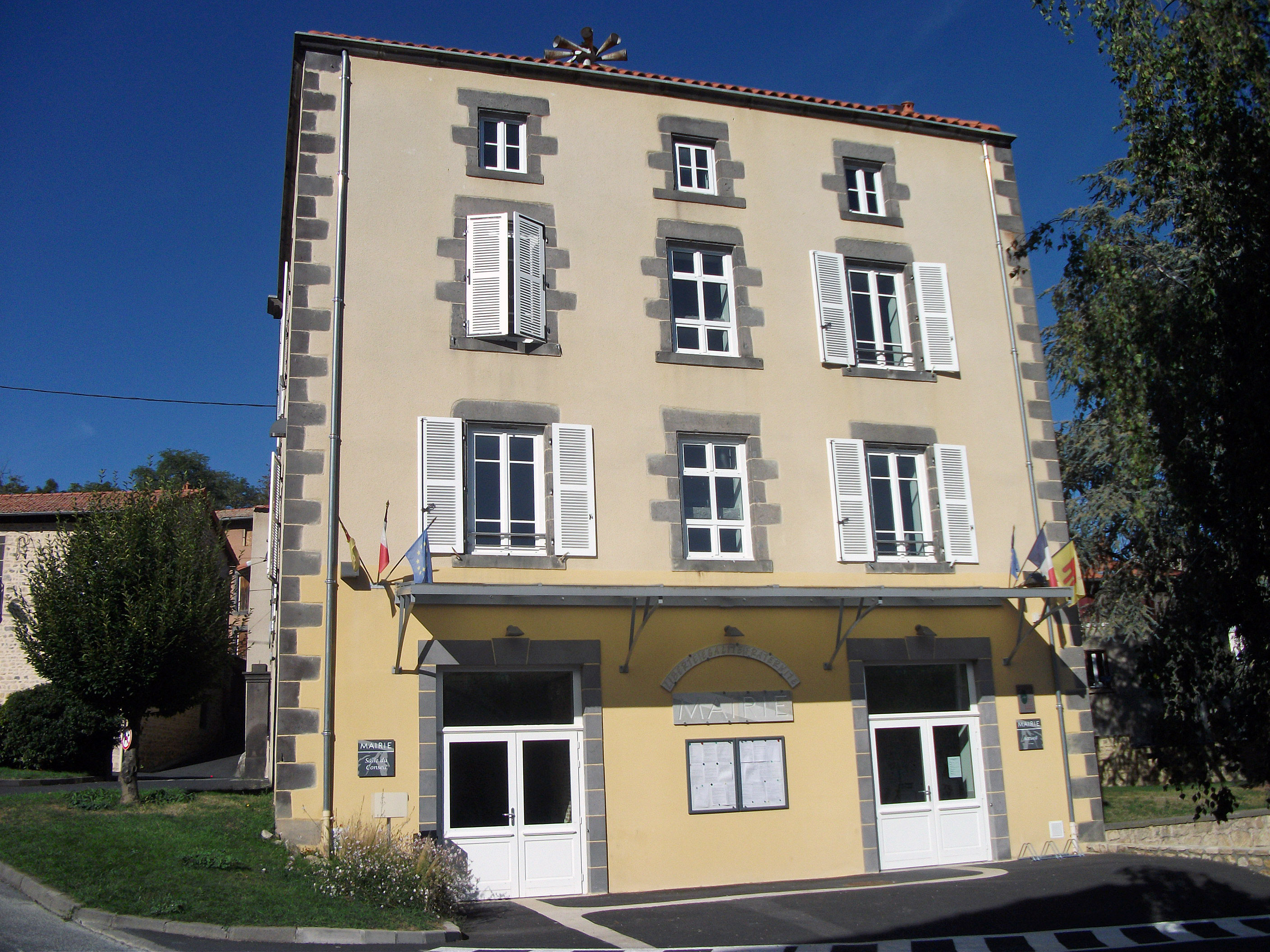 Town hall of Chanonat, Puy-de-Dôme, Auvergne-Rhône-Alpes, France [11996]